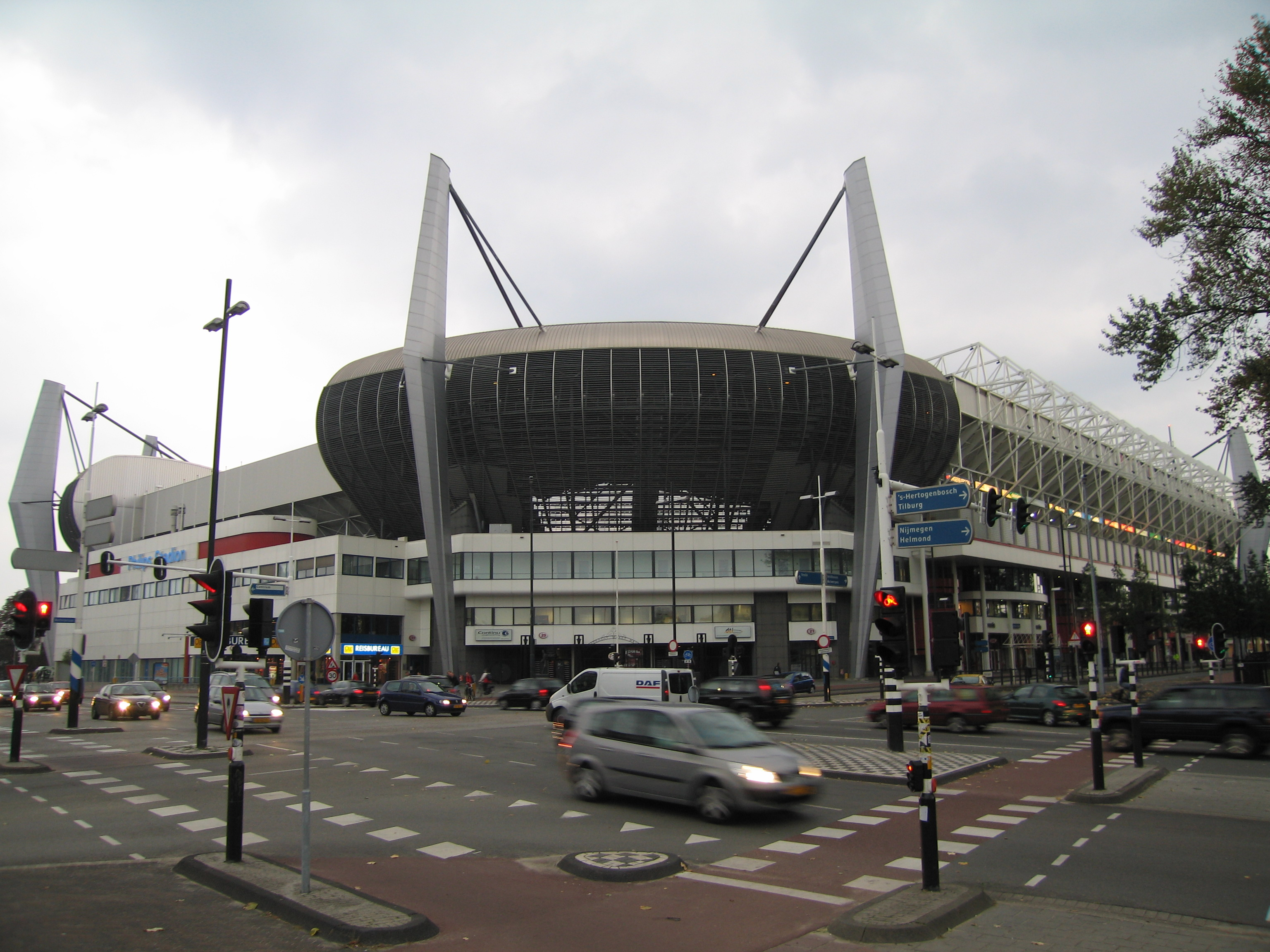 Philips Stadion showing the ventilating corner seats, to allow airflow over the pitch for better grass quality